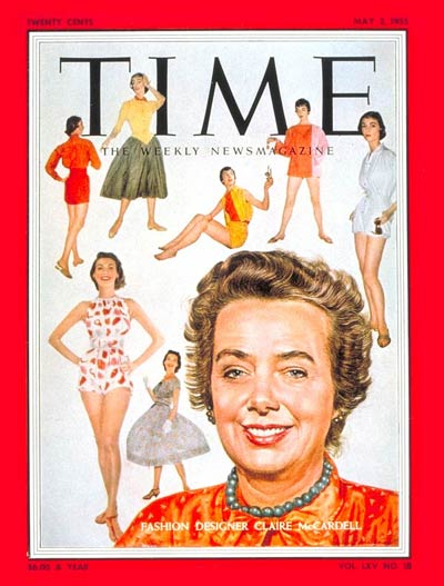 American fashion designer Claire McCardell surrounded by models wearing her designs.